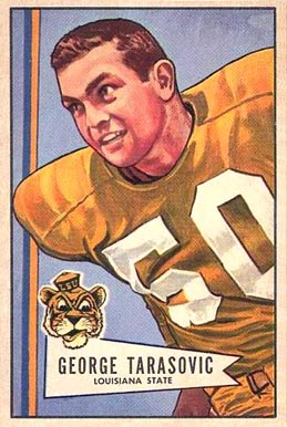 American football player George Tarasovic on a 1952 Bowman Large card.